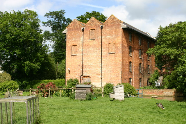 Letheringsett watermill. The only watermill still operating commercially by waterpower in Norfolk.